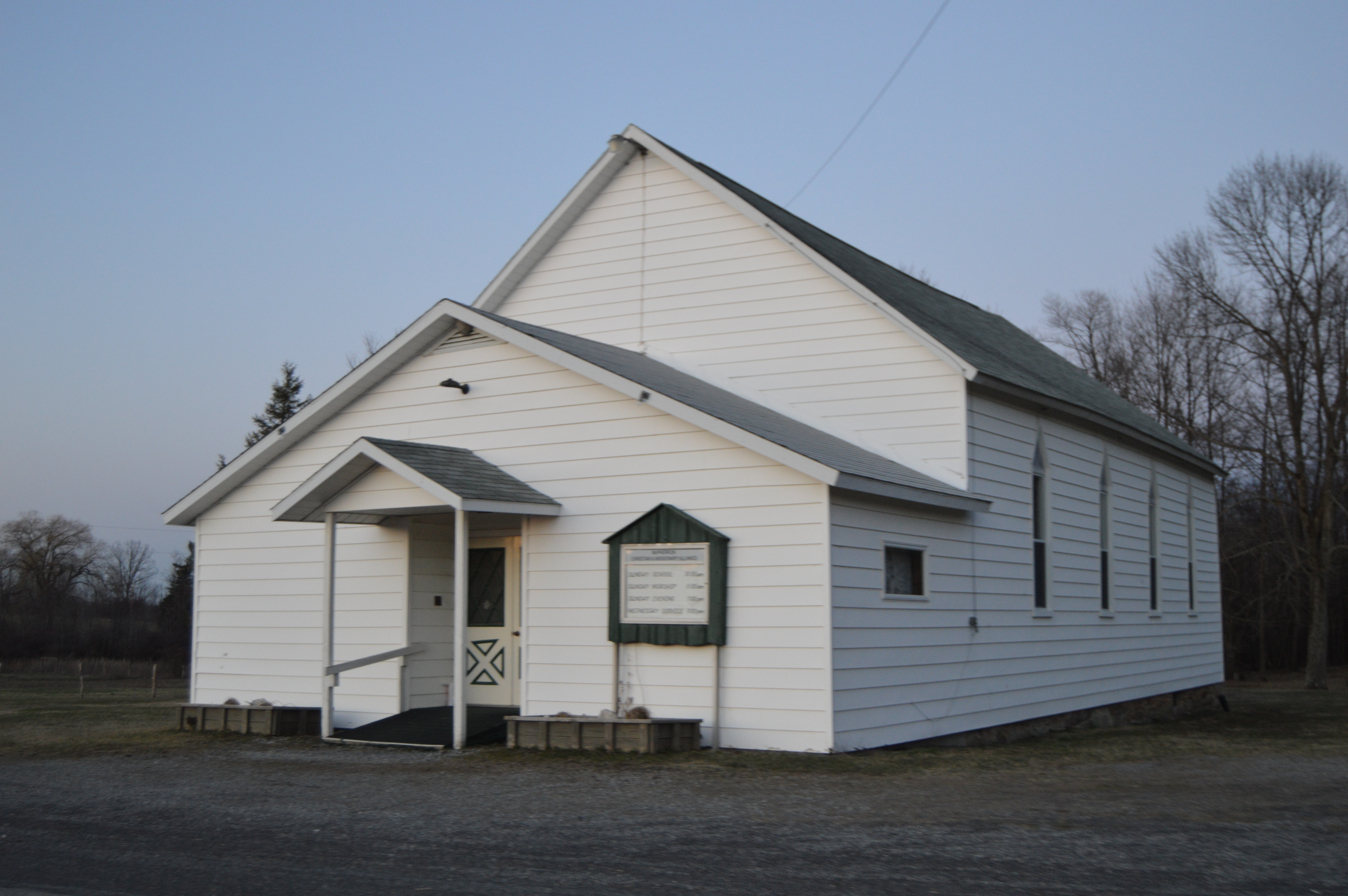 Southern side and front of the McPherron Christian and Missionary Alliance Church, located at 2860 Punkin Ridge Road northeast of Westover in Chest Township, Clearfield County, Pennsylvania, United States.